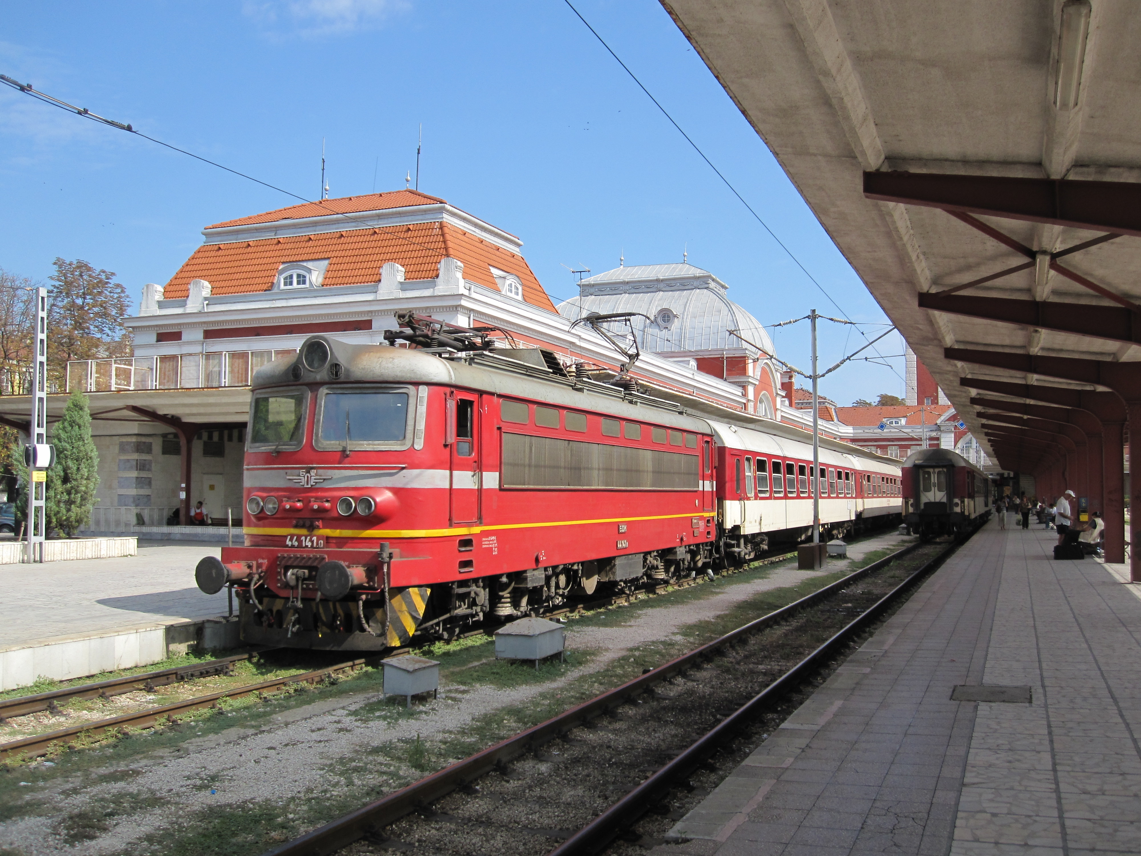 Bulgaria Trip Day Three. Part of a large fleet of Czechoslovakian built locos from Skoda running in Bulgaria as classes 42, 43, 44 and 45. These are staple power on many fast and stopping passenger trains over the entire system plus freight. On 26 September 2012 sees 44141 ready for departure on train 30152, 13:40 Varna to Karnobat.